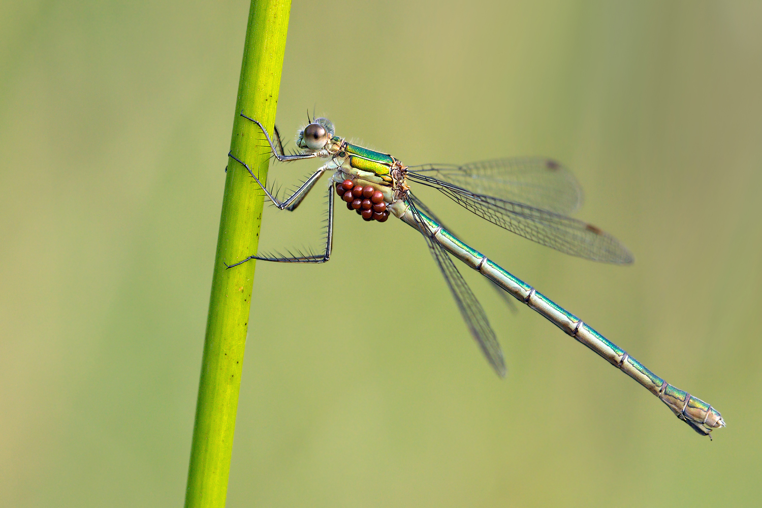 Female specimen of the Common Spreadwing / Common Emerald Damselfly (Lestes sponsa), infested with mite larvae – probably the species Arrenurus papillator.